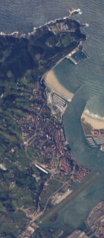 Hondarribia, Gipuzkoa, Basque Country